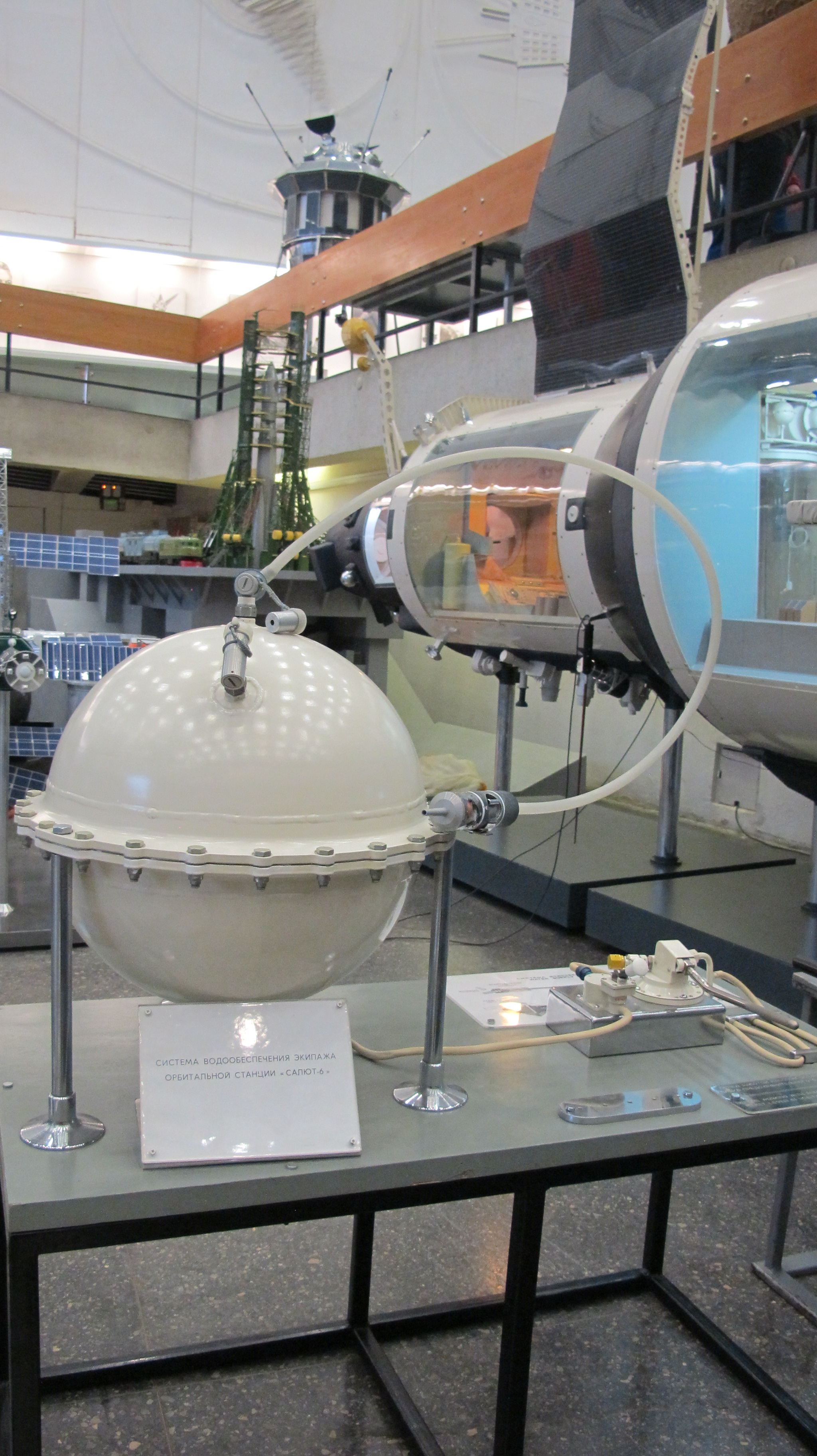 Wikiexpedition to Kaluga 2016-06-11.